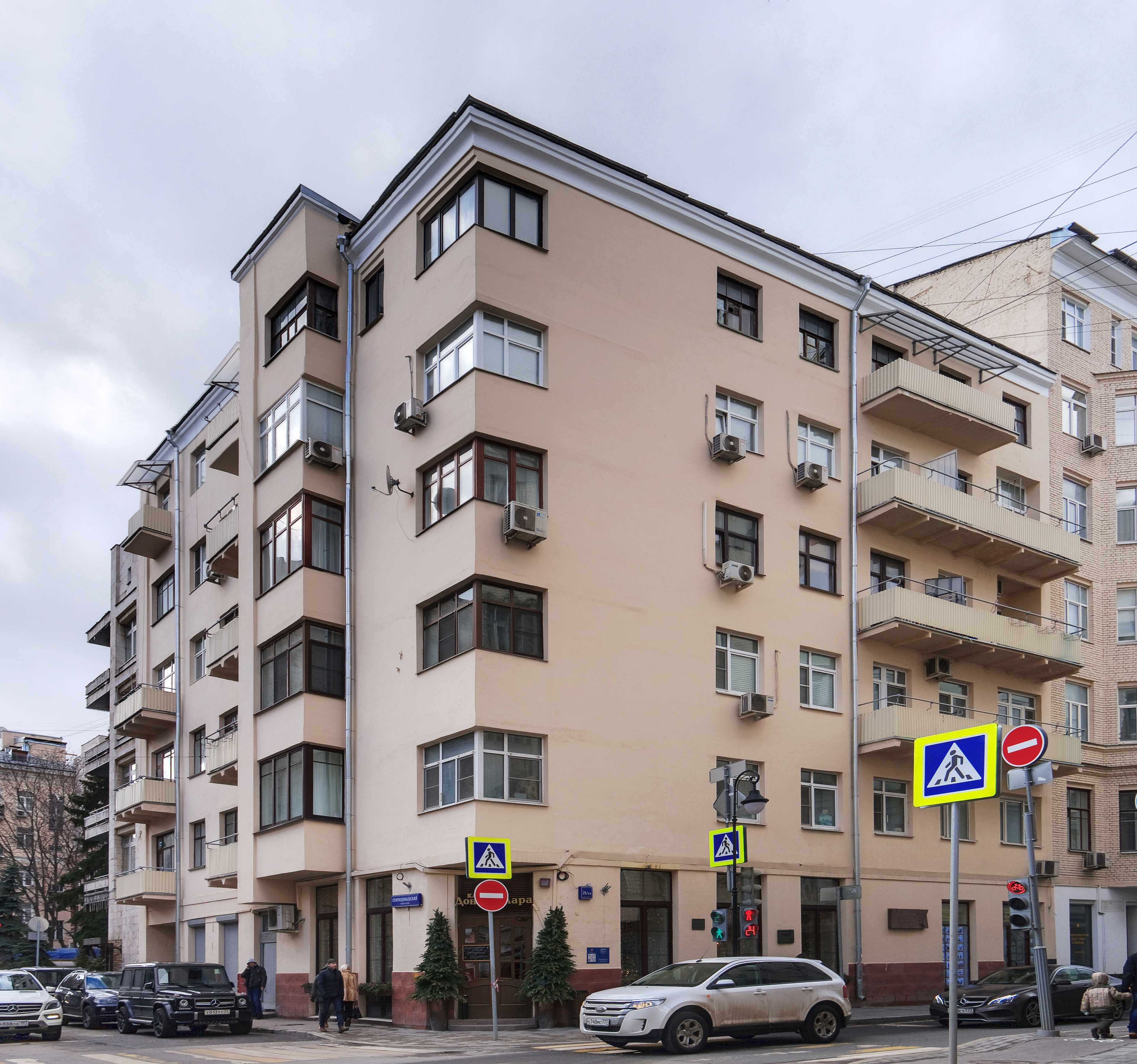 Gosstrakh Building, Malaya Bronnaya Street 21/13, Moscow